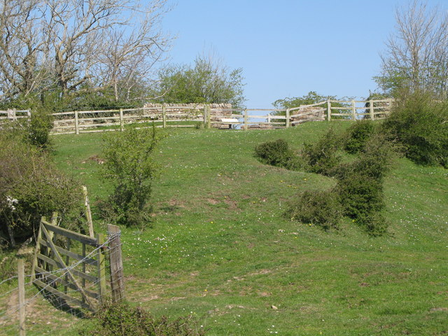 Pike Hill Tower on Hadrian's Wall (2) Looking up to the tower from the south.